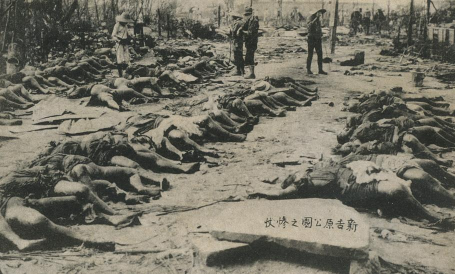 Tragedy at New Yoshiwara Park, 1923 Great Kantō earthquake. 吉原公園で撮影された関東大震災による死者。